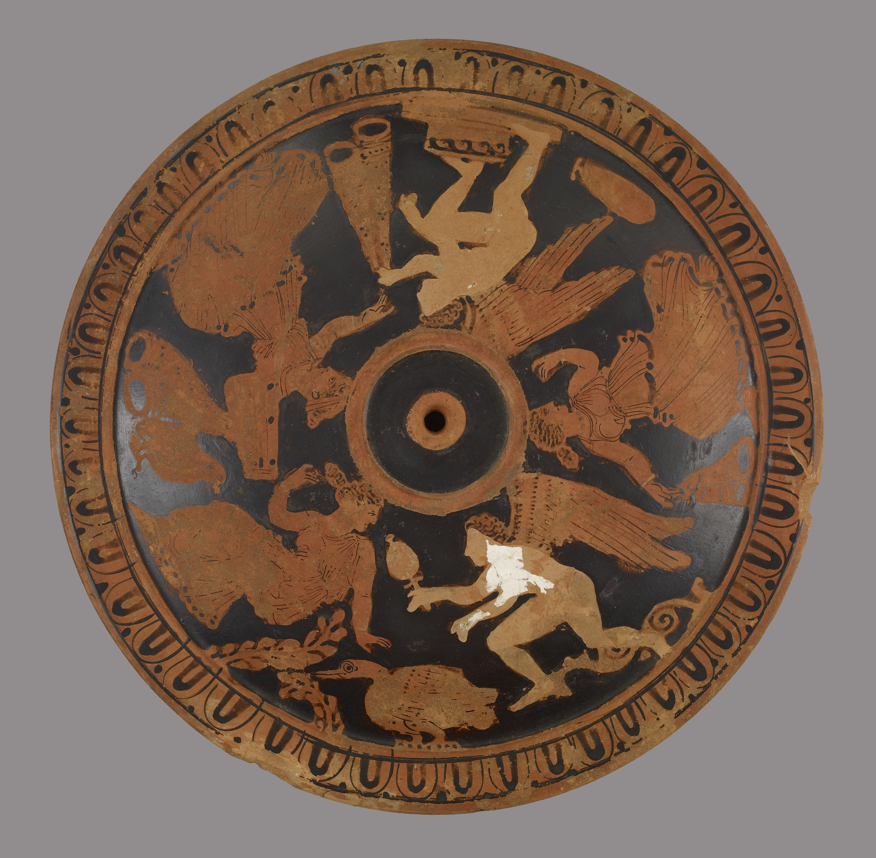 The light-hearted scene on the lid of this "pyxis," or cosmetic box, is typical of the 4th century BC. One Eros figure holds out a mirror to a seated woman, while another gives patterned shawls to two other women. Elements of a landscape setting, including birds and vines, add to the fantasy of the scene.